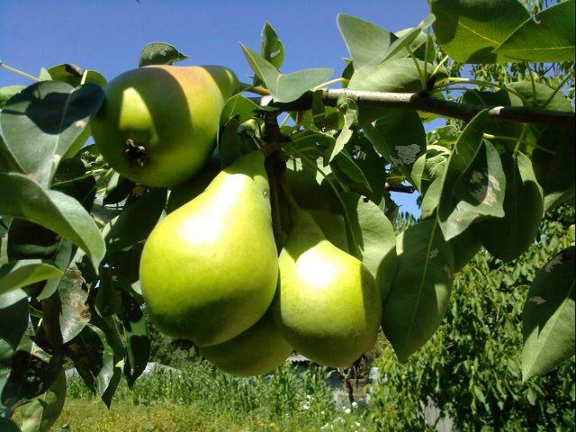 Pears, Pria, Salaj County